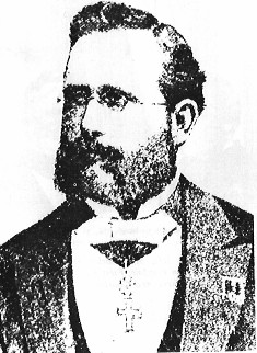 Auguste Kerckhoffs, 19th century Dutch cryptographer